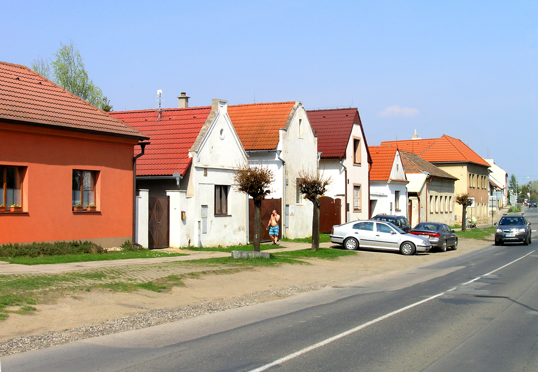 Kostelecká street in Mratín, Czech Republic